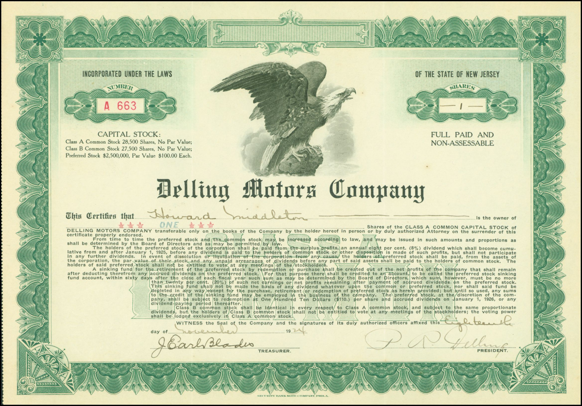 Share of the Delling Motors Company, issued 18. September 1924